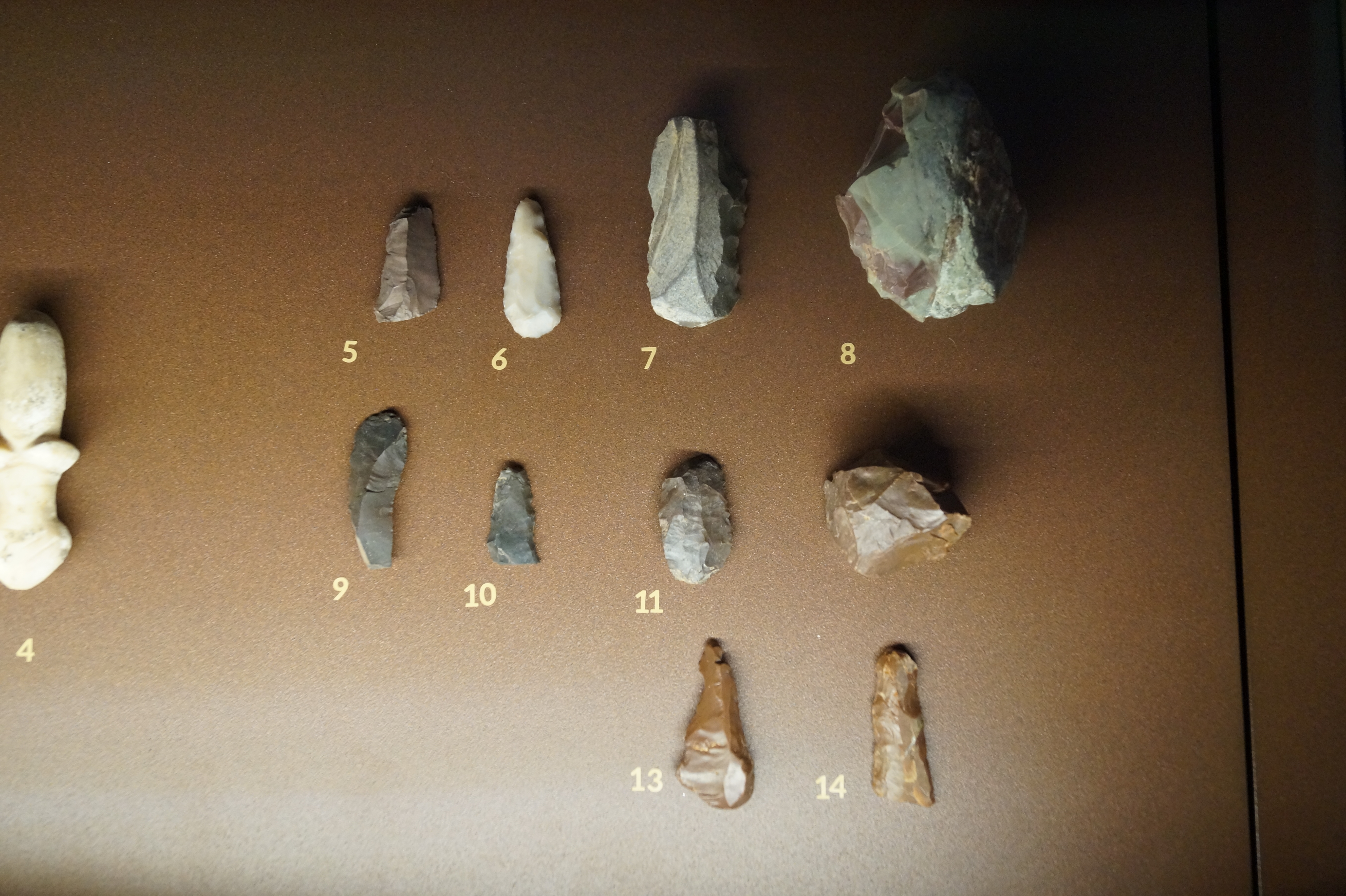 Archaeological Museum of Thebes: Flint tools from the cave of Seidi (33.000 - 8.000 BC)